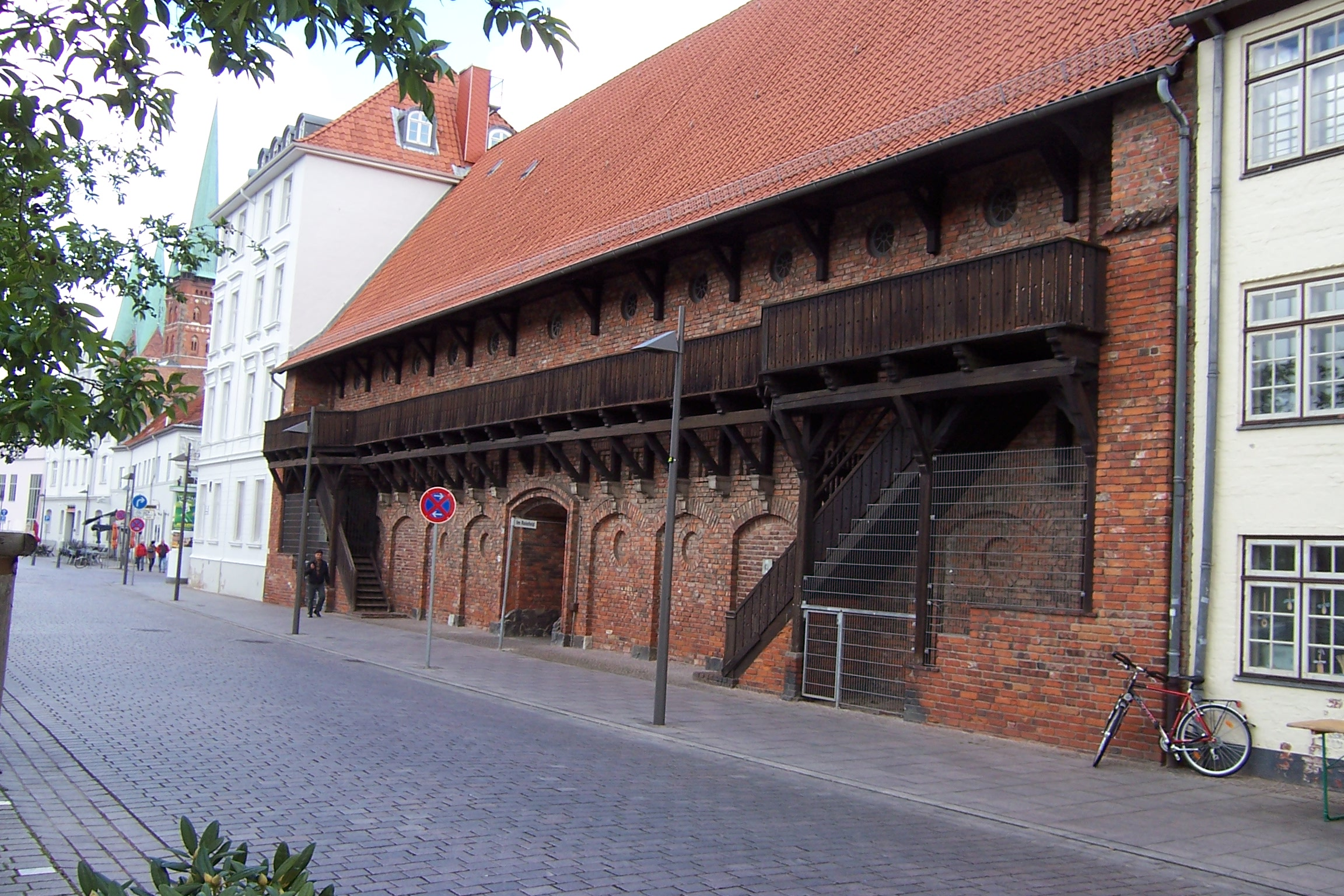 former air raid shelter Im Reinfeld, built 1938, An der Obertrave, Lübeck